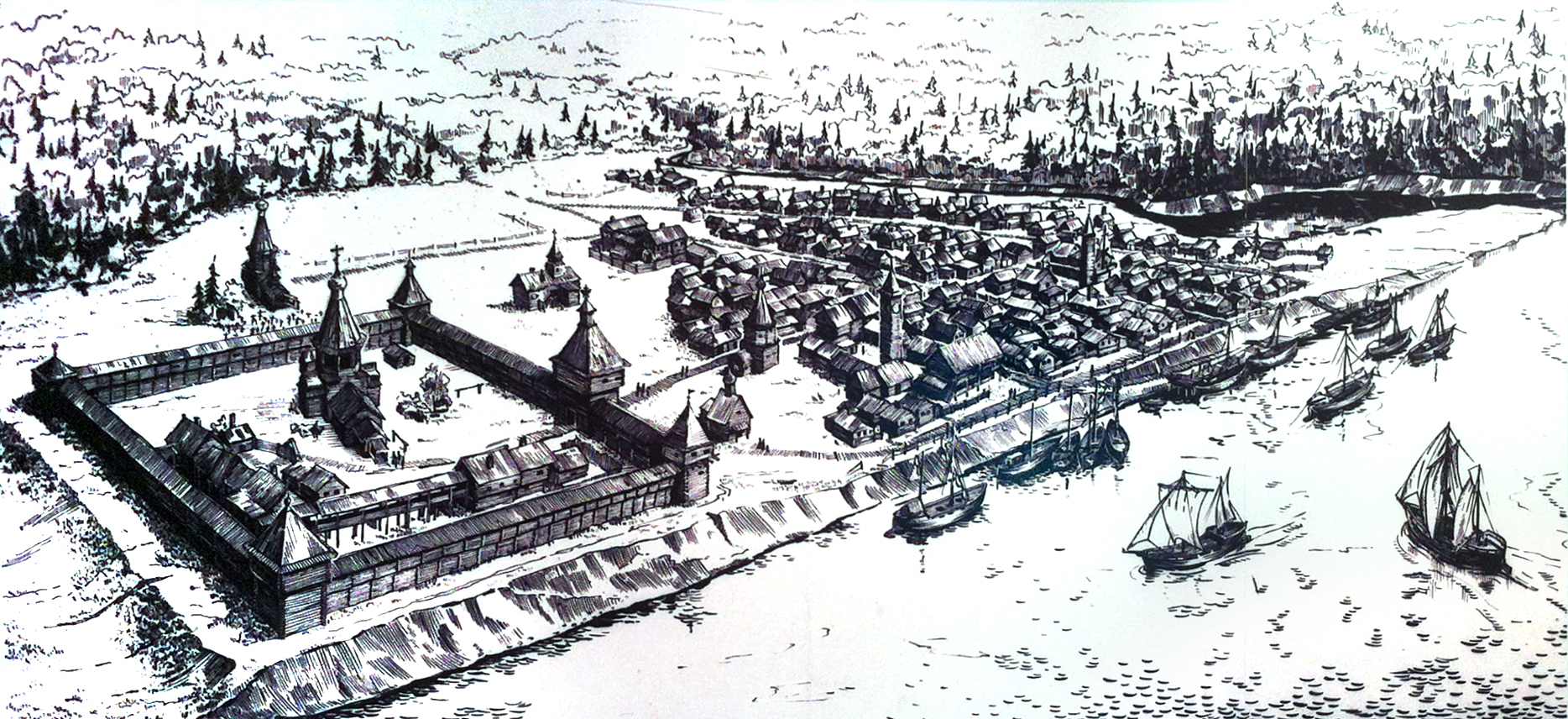 Graphical reconstruction of Mangazeya (painter: M.I. Belov) Shemanovsky museum and exhibition complex. Mangazeya Hall.